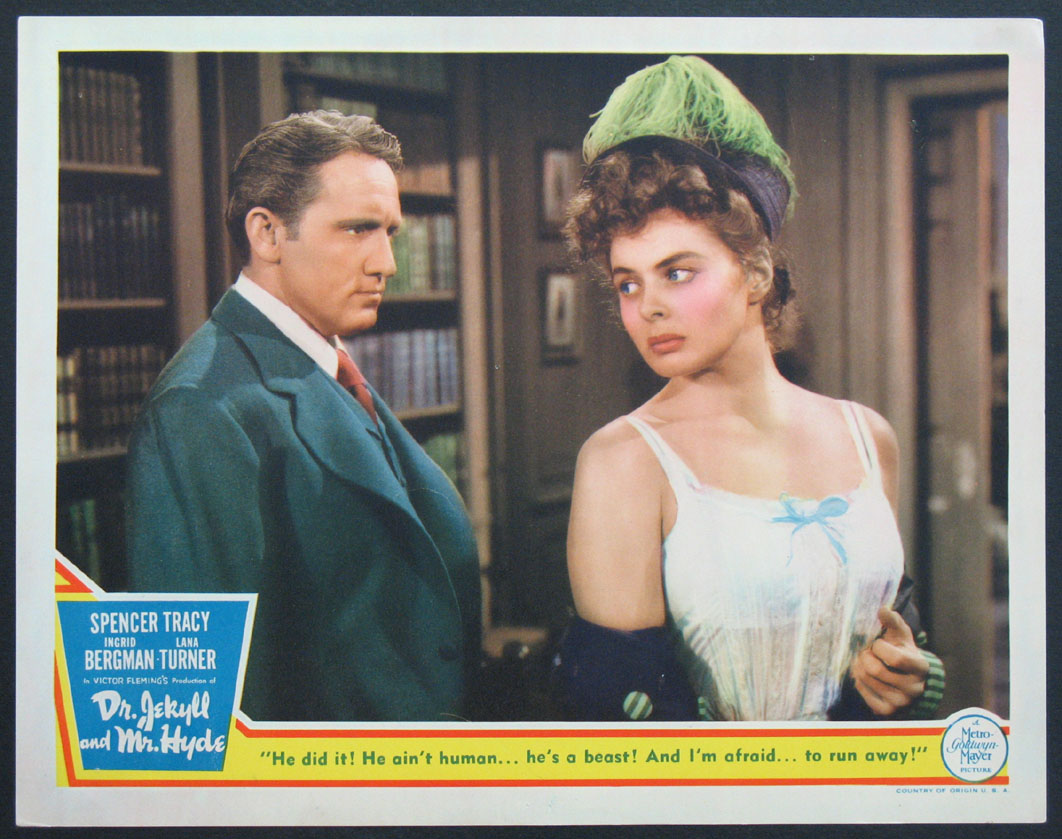 Colored lobby card for the 1941 film Doctor Jekyll and Mister Hyde. Pictured are Ingrid Bergman and Spencer Tracy. This image is assumed to be in the public domain due no copyright notice being in evidence.